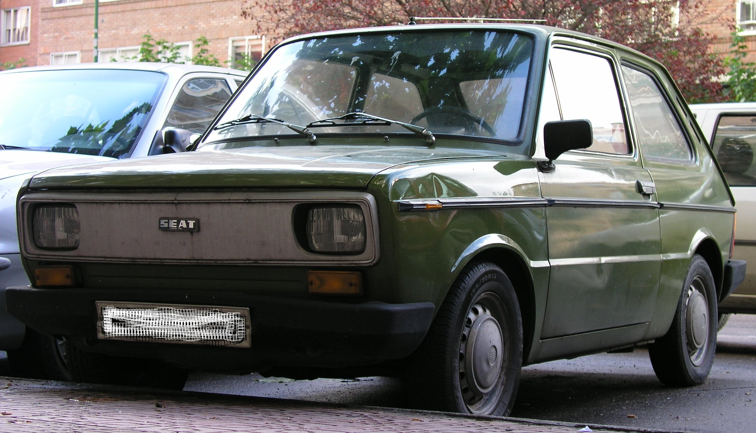 SEAT 133. Picture taken in Spain, 2006.